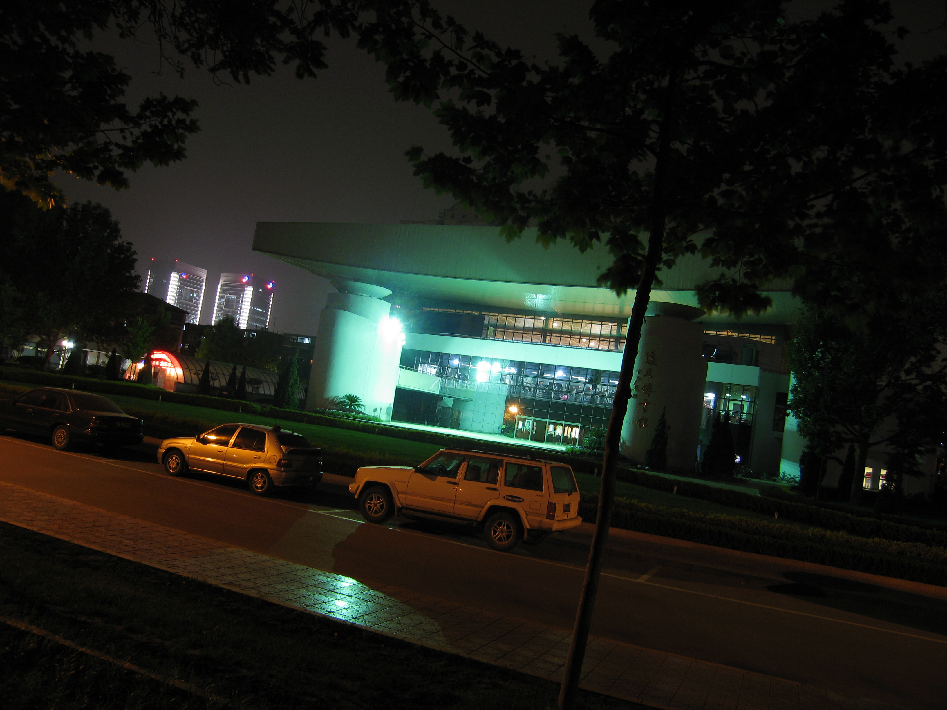 BLCU campus, fitness center